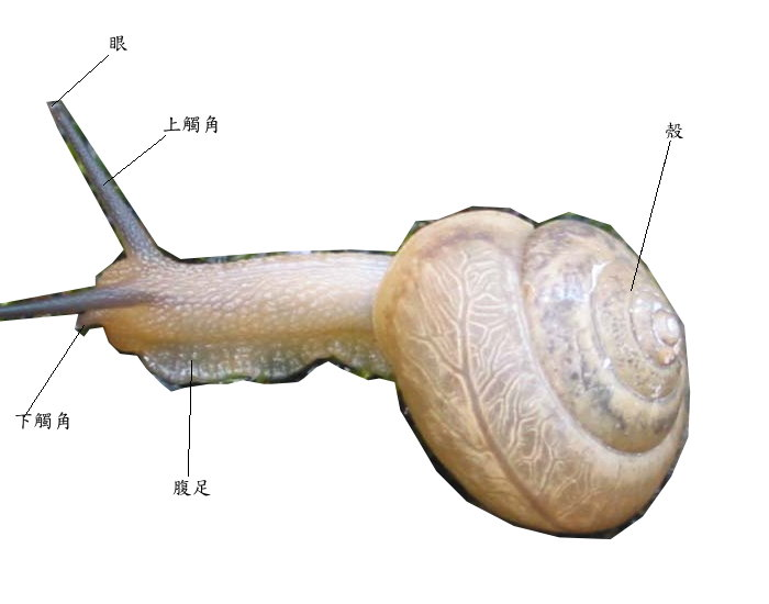 The struture of the Stylommatophora